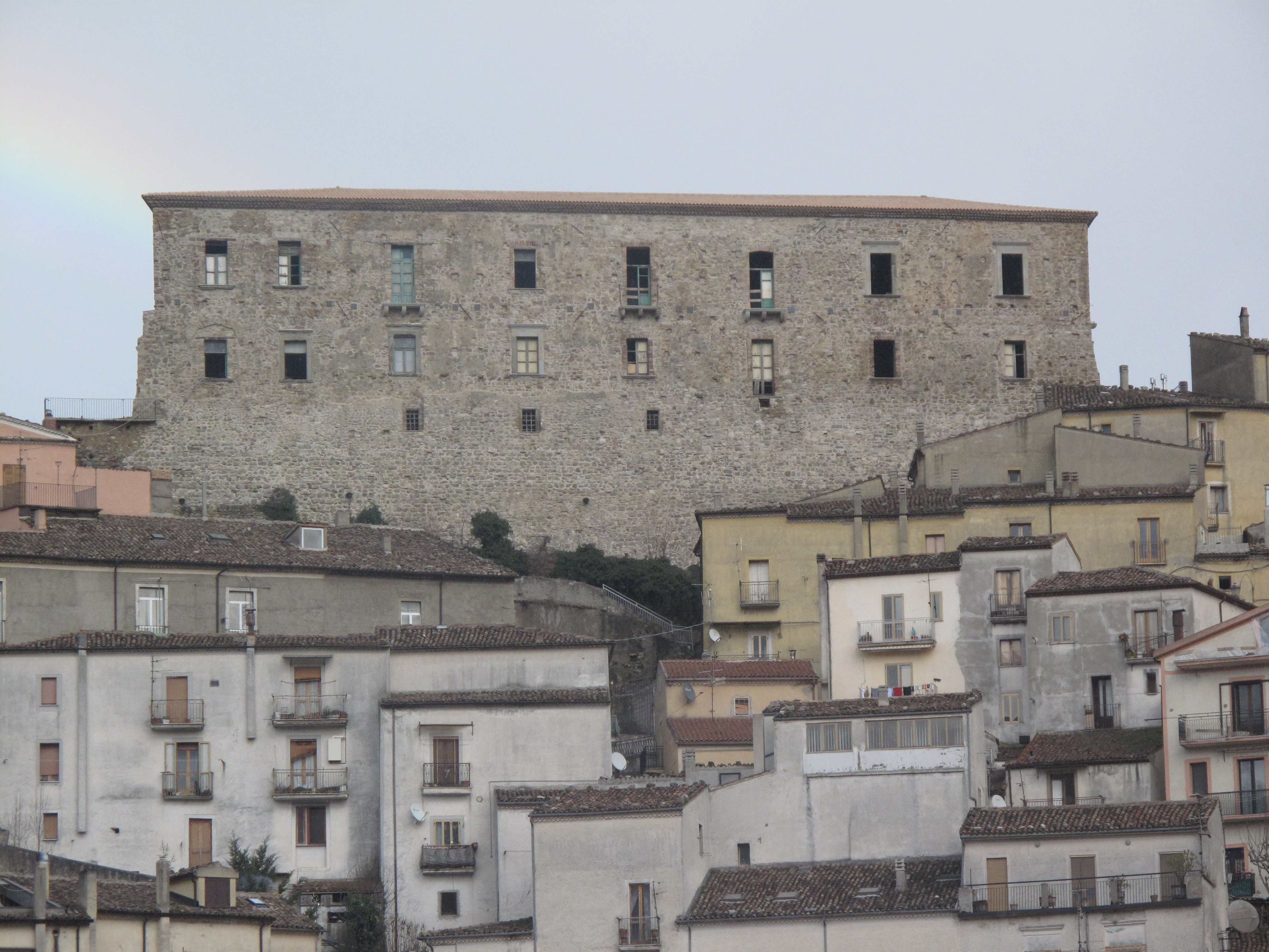 Castello di Calvello